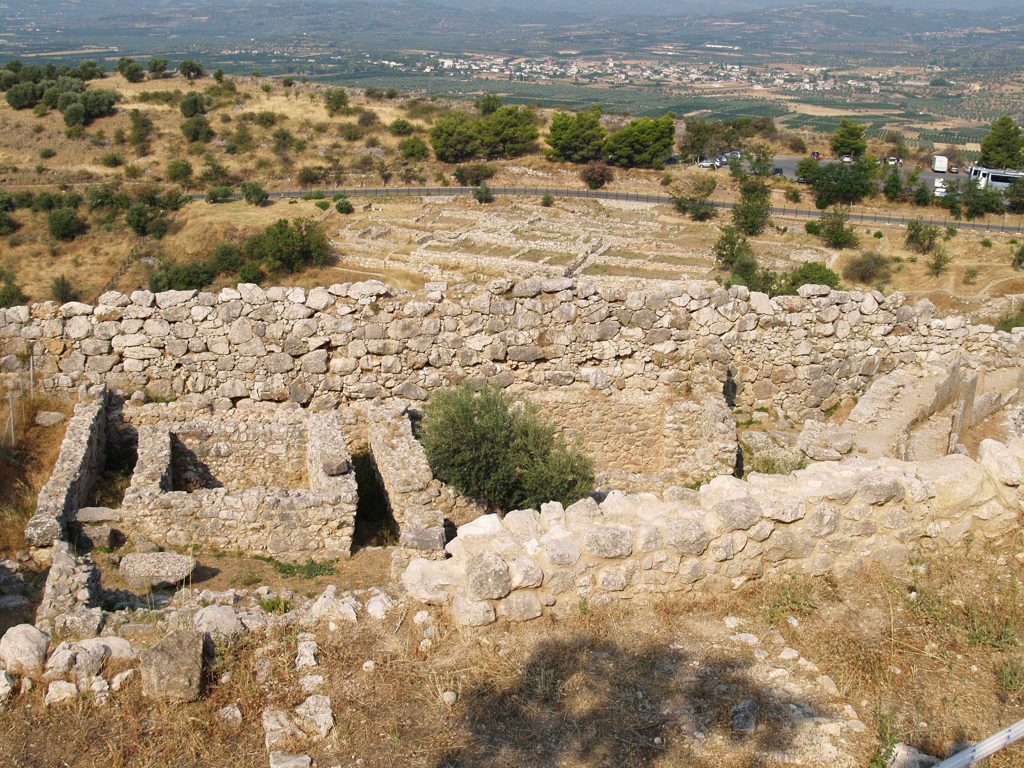 Schliemann who excated this structure, believed it to be part of Agamemnon's palace. It has no connection, however with the palace of Mycenae; but was the basement of a small building which was destroyed at the same time as the Granery, and which contained fragments of a large Late Mycenaean krater decorated with figures of warriors. ( National Archeological Museum of Athens )